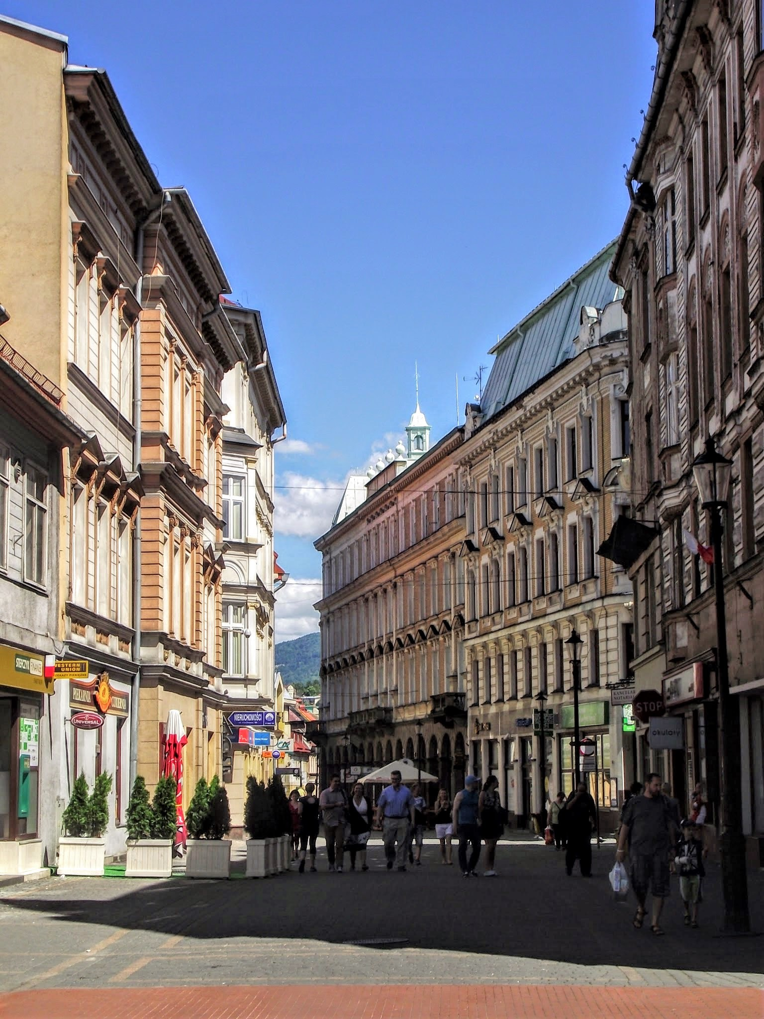 11th November Street in Bielsko-Biala.